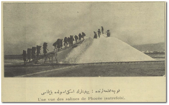 Décauville railway on the Foça saltpans, 1910